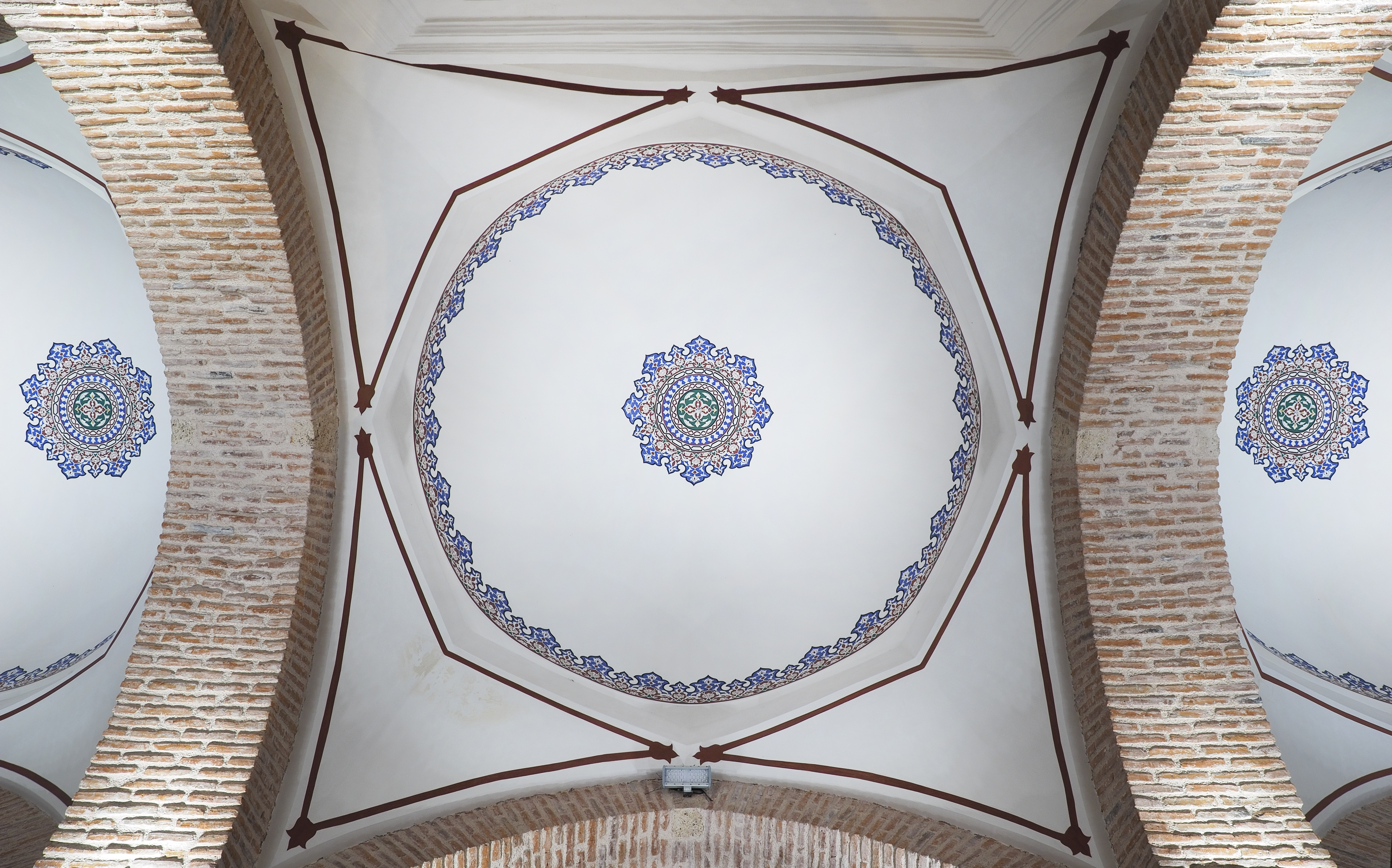 Three small domes at enterance of Hajdar Kadi Mosque, Bitola, Macedonia.